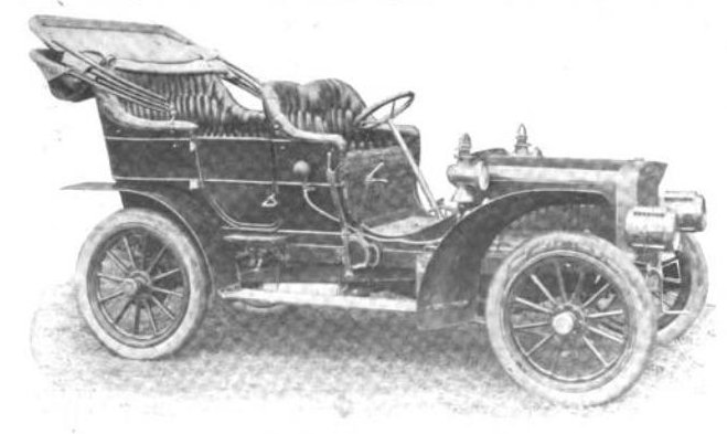 A photo of a 1906 American Simplex Automobile from page 540 of the cited magazine; from Google Books scan: Title The Horseless age, Volume 17 Publisher Horseless Age Co., 1906 Original from the New York Public Library Digitized Jun 1, 2006